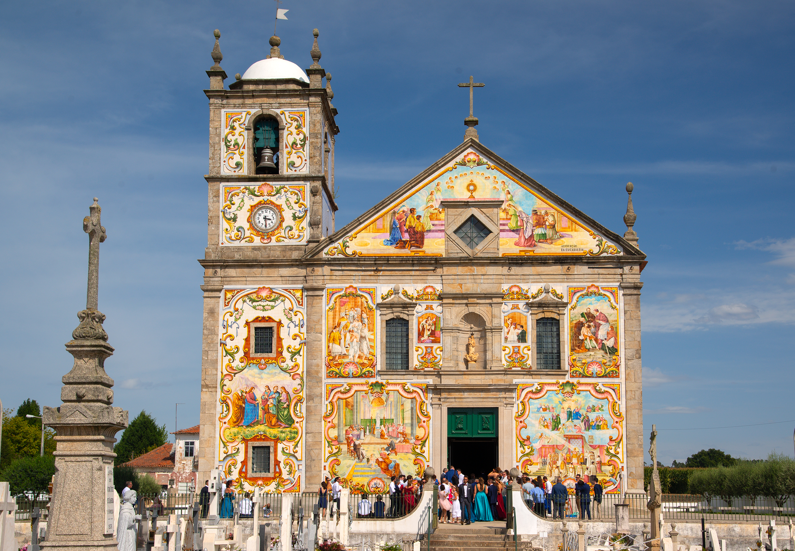 Igreja matriz de Santa Maria de valega; parish church of Valega, Portugal